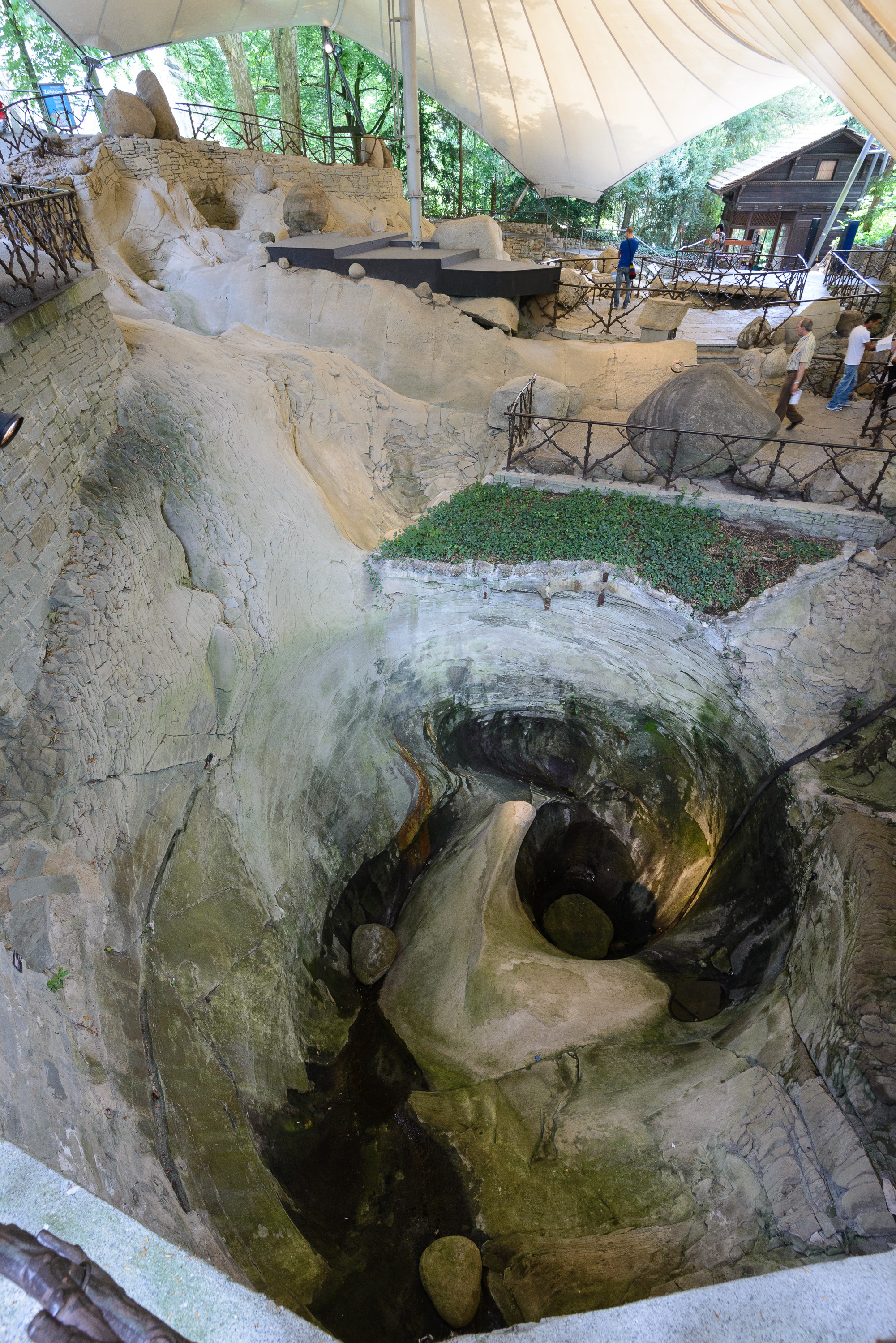 Gletschergarten (Sammlung)